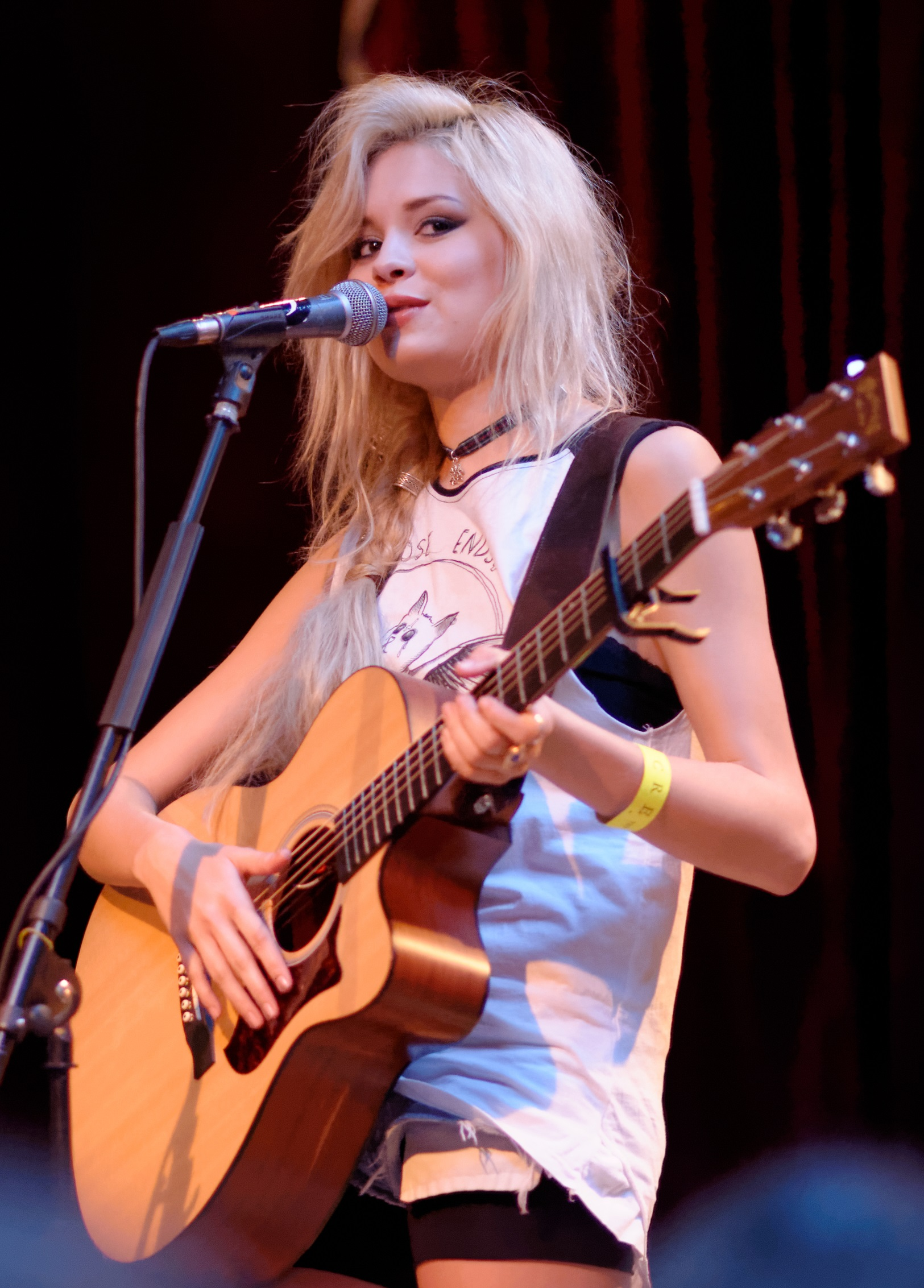 Nina Nesbitt performing live at the Bootleg Bar in Los Angeles California on April 10th, 2014